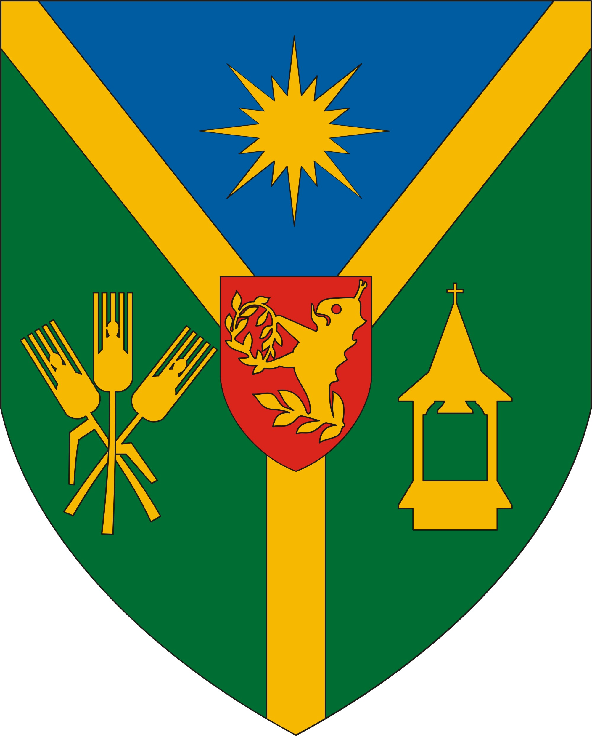 Coat of arms of Csabaszabadi, Hungary